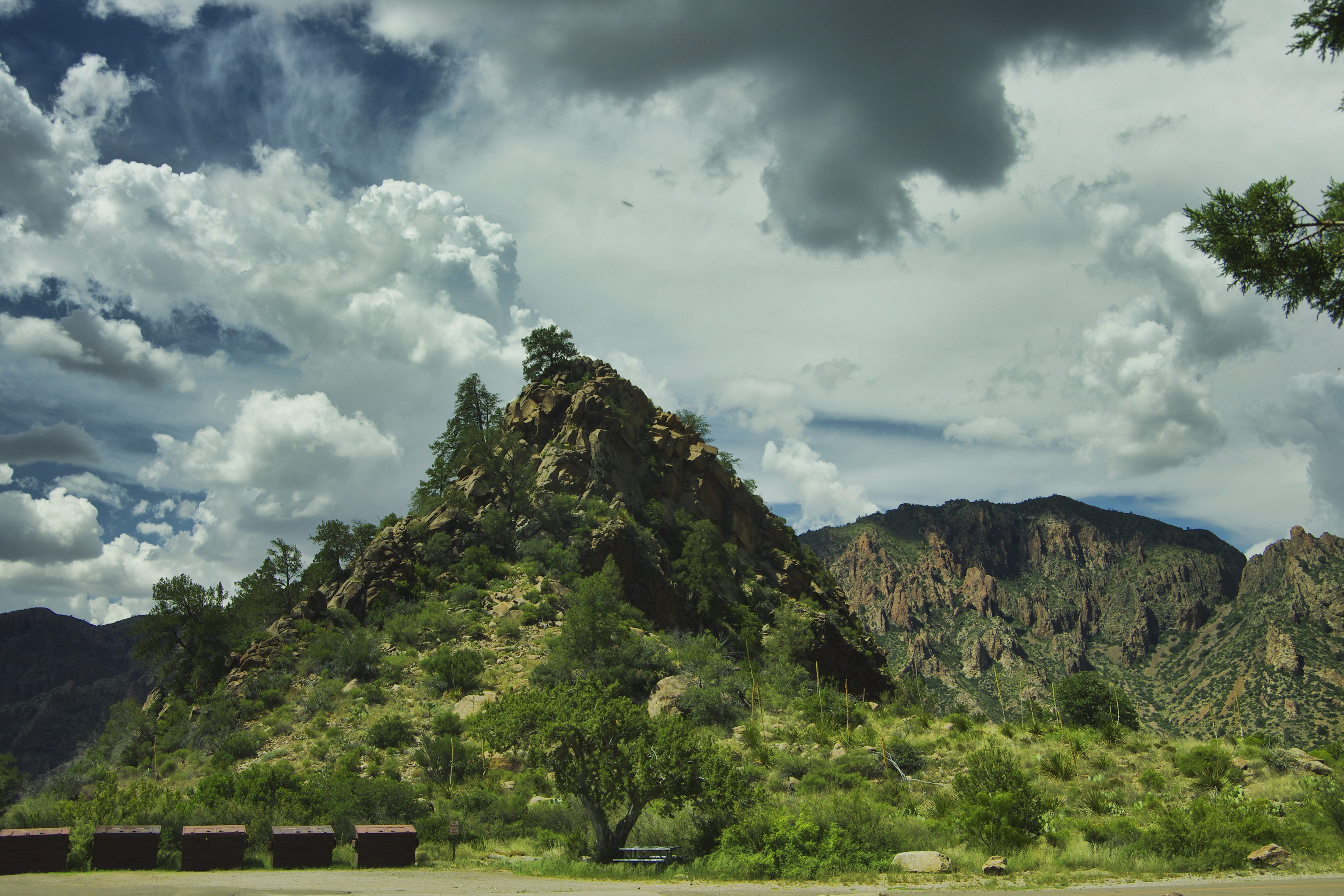 Big Bend National Park, Texas